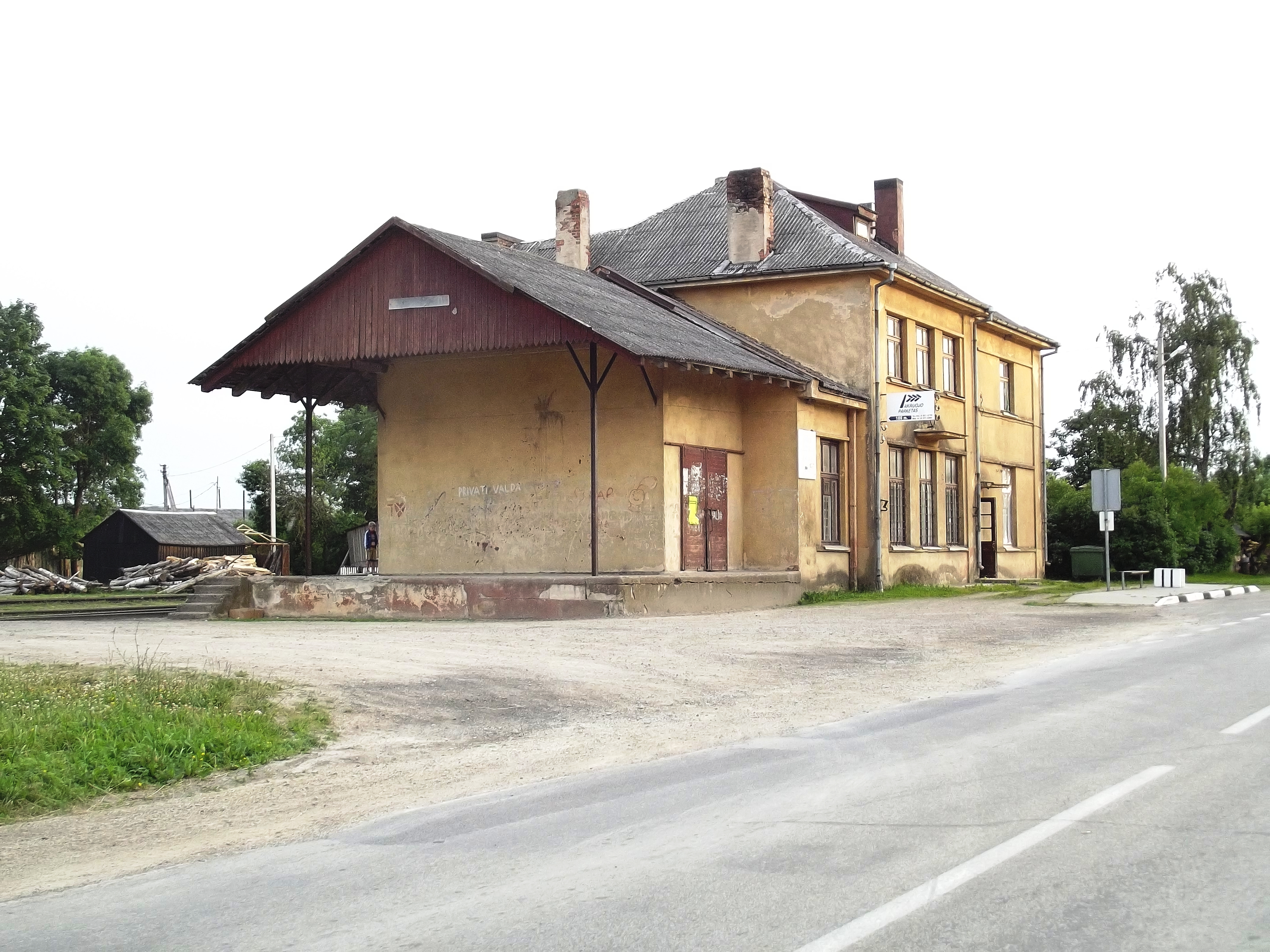 Petrašiūnai, former narrow gauge train station, Pakruojis district, Lithuania